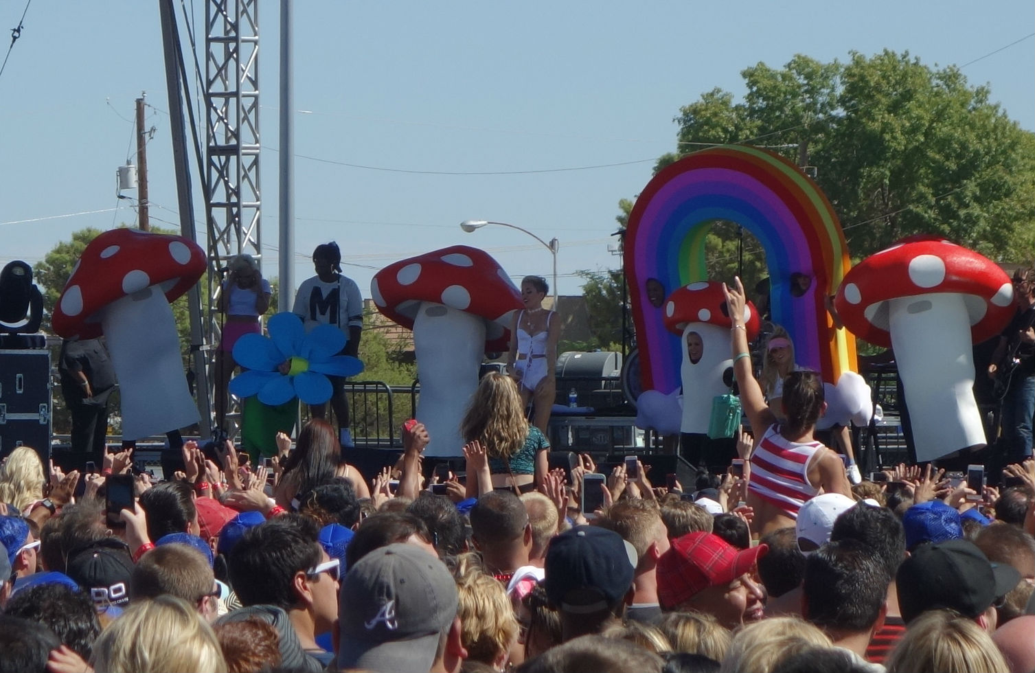 Miley Cyrus performing at the iHeart Radio Music Festival 2013